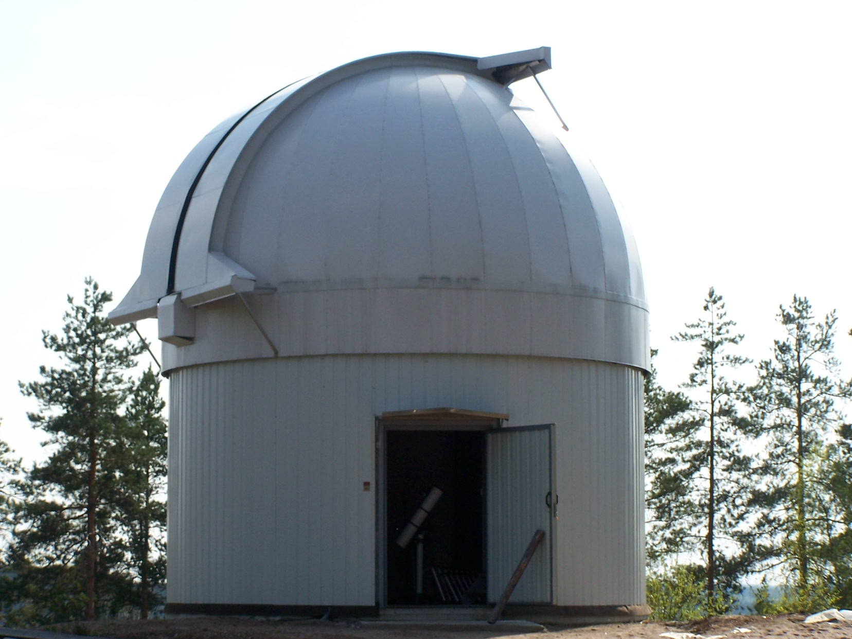 Ursa's Tähtikallio observatory at Artjärvi, Finland.